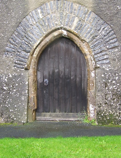 North door of the nave of SS Peter and Paul parish church, Broadhempston, Devon. This is a "Devil's door", opened during baptisms.